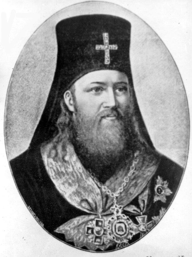 Theophylact (Rusanov), exarch of Georgia